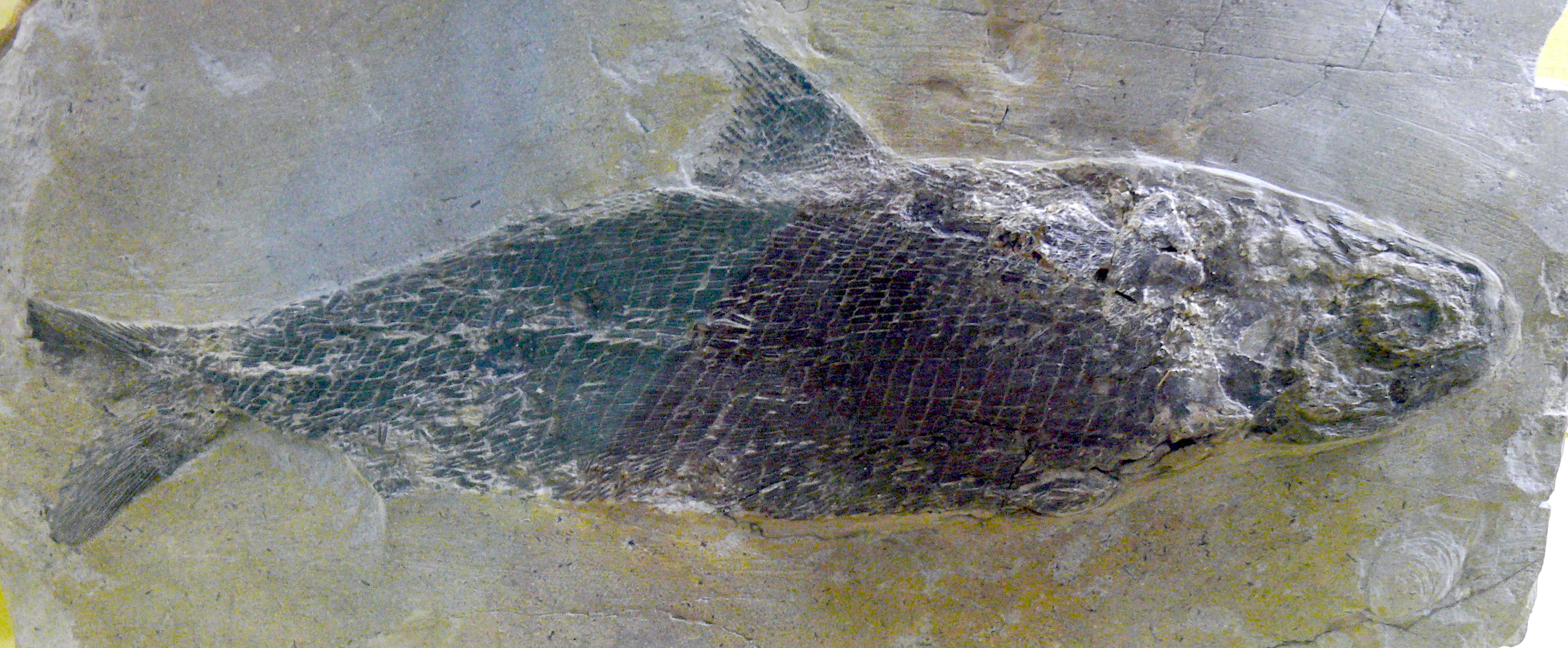 Ptycholepis bollensis AGASSIZ, from Boll, Württemberg, Germany, Lower Jurassic